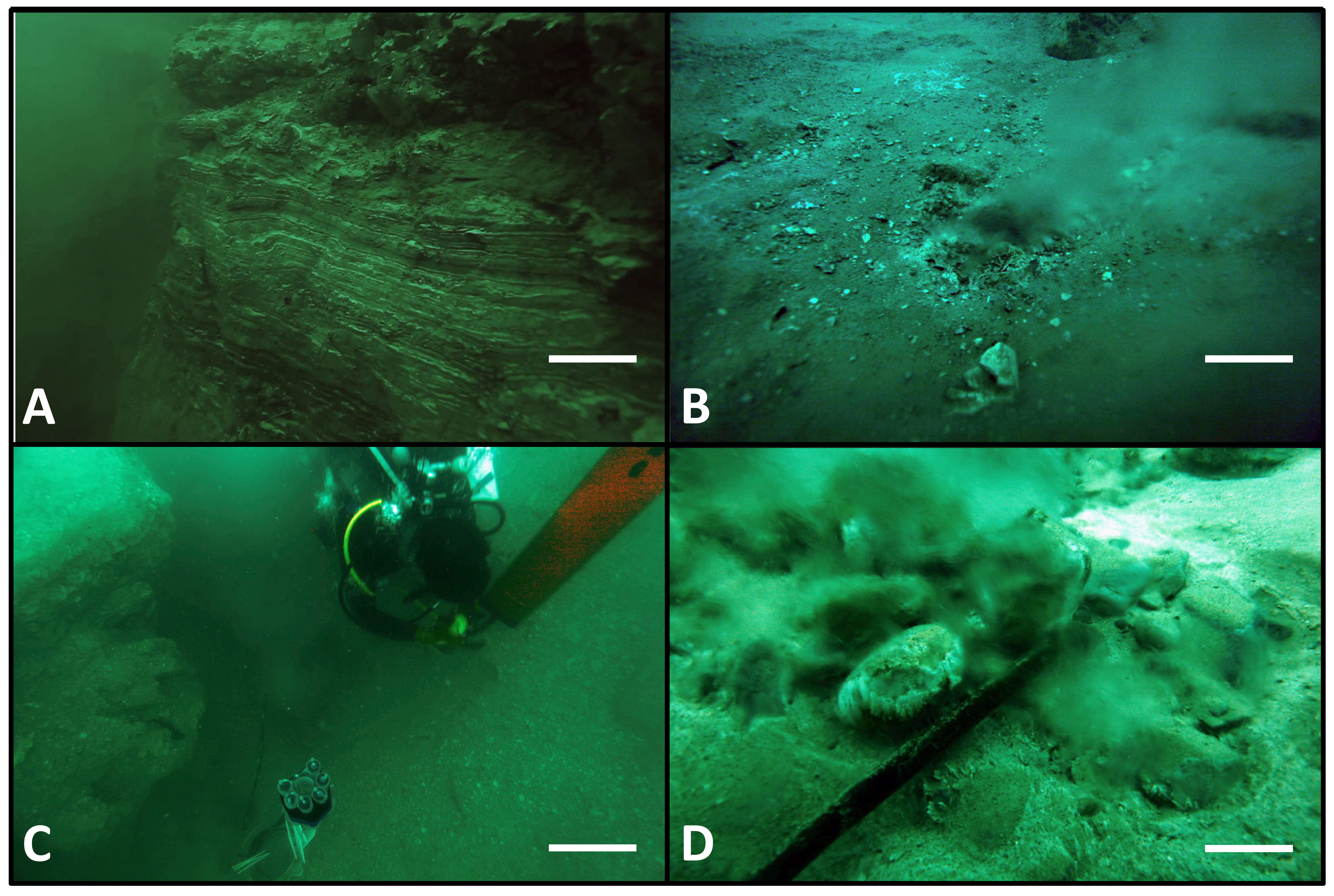 Four photographs of a series of underwater fresh water springs found in the Dead Sea, approximately 1.8 km west of Mitzpe Shalem, in 2010 by Ionescu, et al, and published in PLoS ONE on 5 June 2012. One photograph (D) shows previously unknown biofilms living in association with the springs. Original caption in article (spacing added): A) Lamination on the walls of the shafts created by the springs in the northern system. B) An example of a single water source out of several at the bottom of a shaft in the northern system. C) An example of an in-shaft cavity from which water springs out. D) Cobble covered spring in the southern system. Biofillms are visible on the cobble. Scale bar 0.2 m.